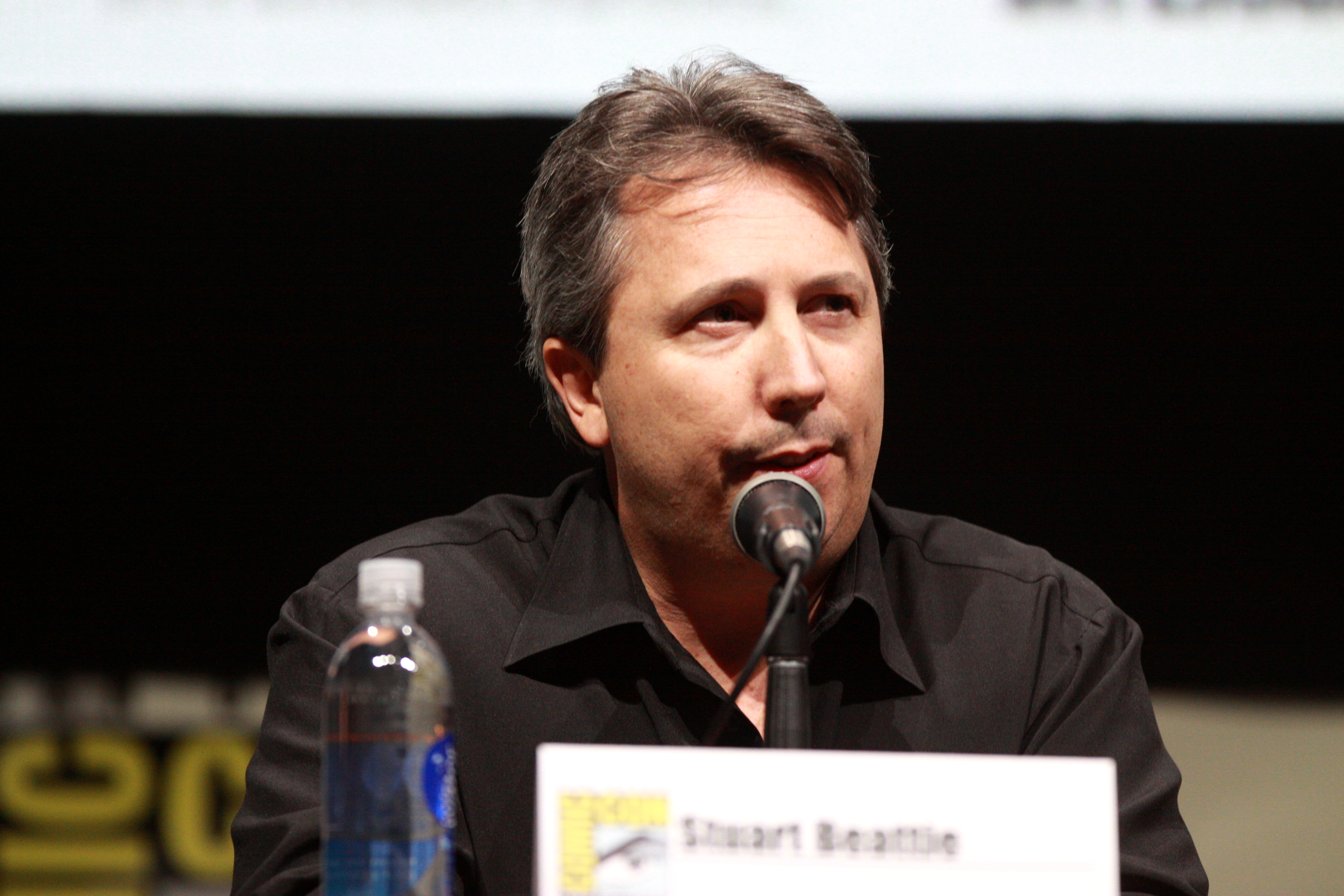 Stuart Beattie at the 2013 San Diego Comic Con.